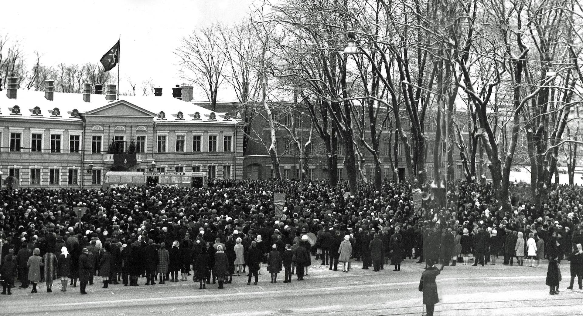 Photograph of the declaration of Christmas peace in Turku, Vanha suurtori.